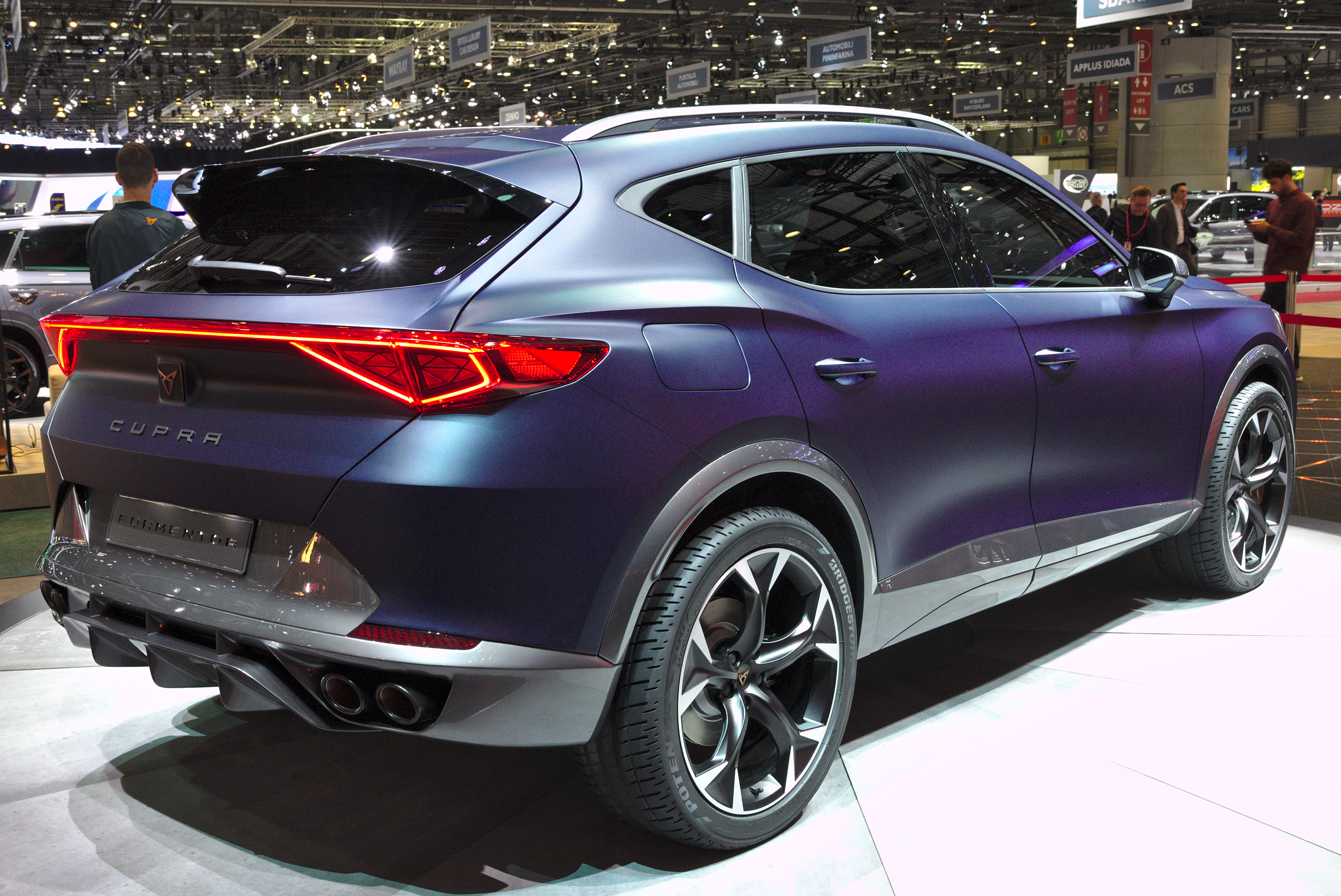 Cupra Formentor at Geneva Motor Show 2019